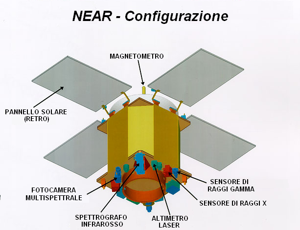 Diagram showing location of NEAR science instruments.